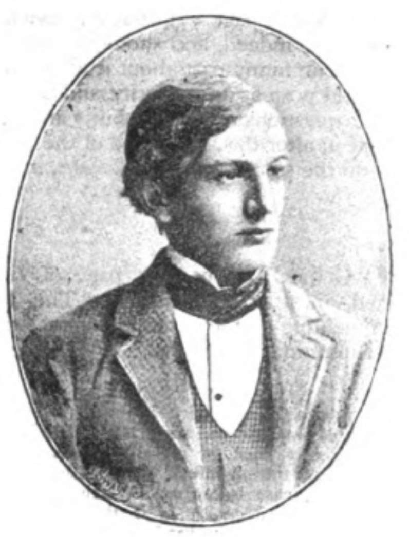 Stuart Erskine pictured in The Whirlwind weekly newspaper, which he co-owned with Herbert Vivian